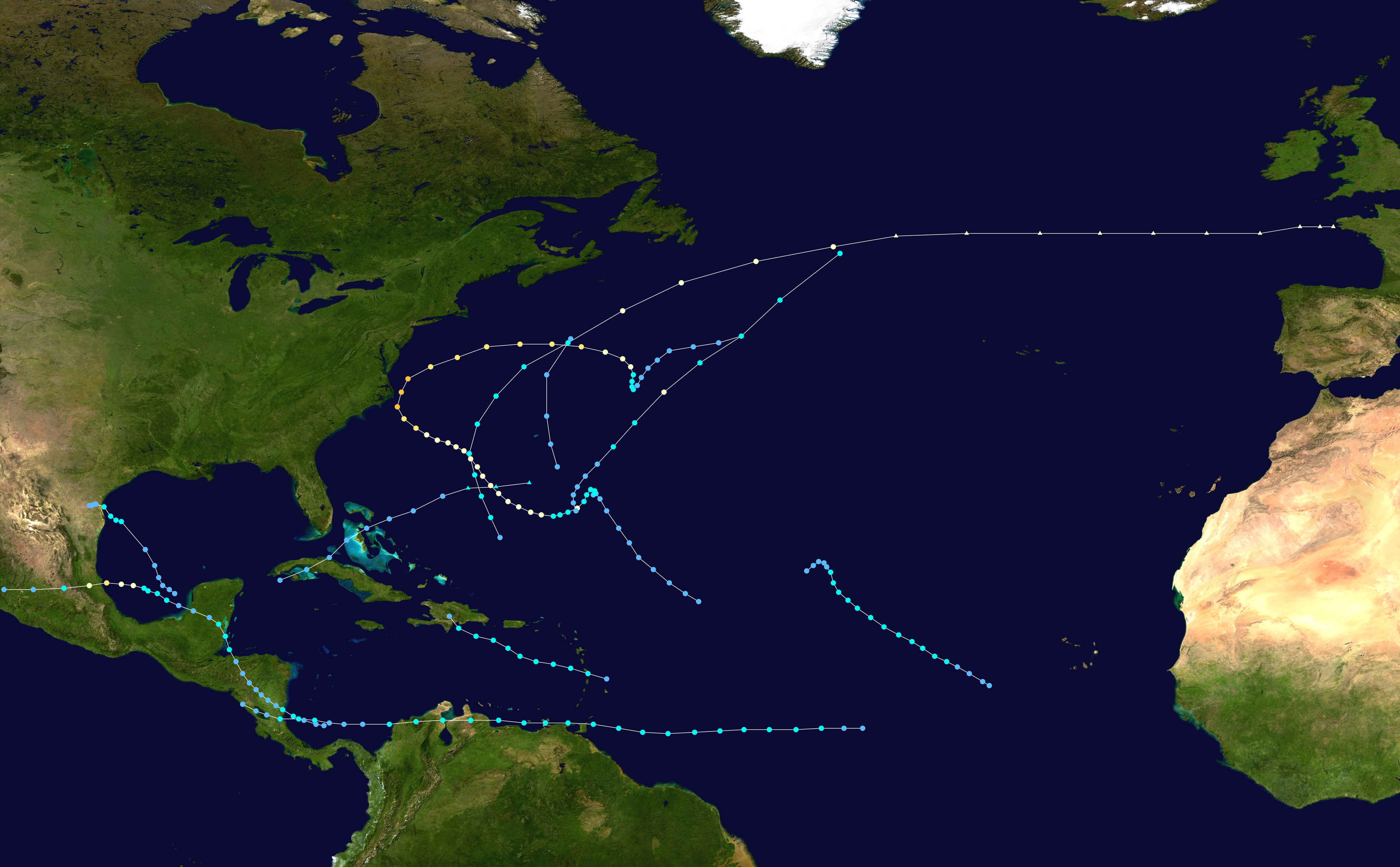 This map shows the tracks of all tropical cyclones in the 1993 Atlantic hurricane season. The points show the location of each storm at 6-hour intervals. The colour represents the storm's maximum sustained wind speeds as classified in the Saffir-Simpson Hurricane Scale (see below), and the shape of the data points represent the type of the storm. Saffir–Simpson scale Tropical depression≤38 mph≤62 km/h Category 3111–129 mph178–208 km/h Tropical storm39–73 mph63–118 km/h Category 4130–156 mph209–251 km/h Category 174–95 mph119–153 km/h Category 5≥157 mph≥252 km/h Category 296–110 mph154–177 km/h Unknown Storm type Tropical cyclone Subtropical cyclone Extratropical cyclone / Remnant low / Tropical disturbance / Monsoon depression